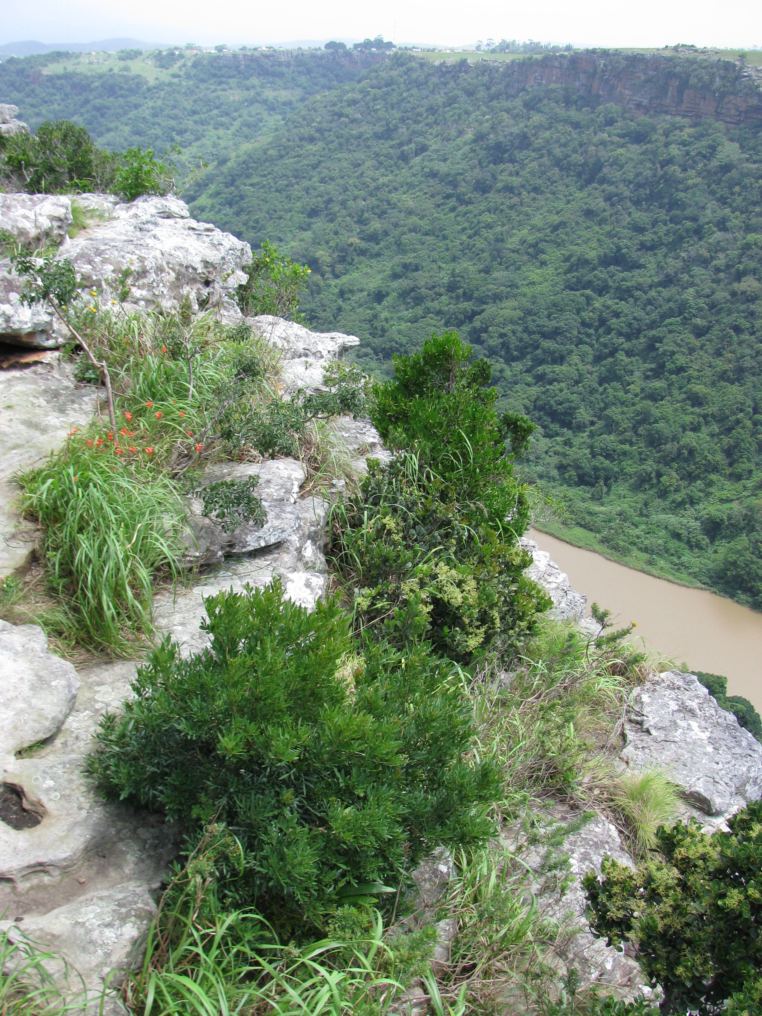 View of the Umtamvuna River Gorge from Clearwater Trail Centre, near Port Edward, KZN, South Africa